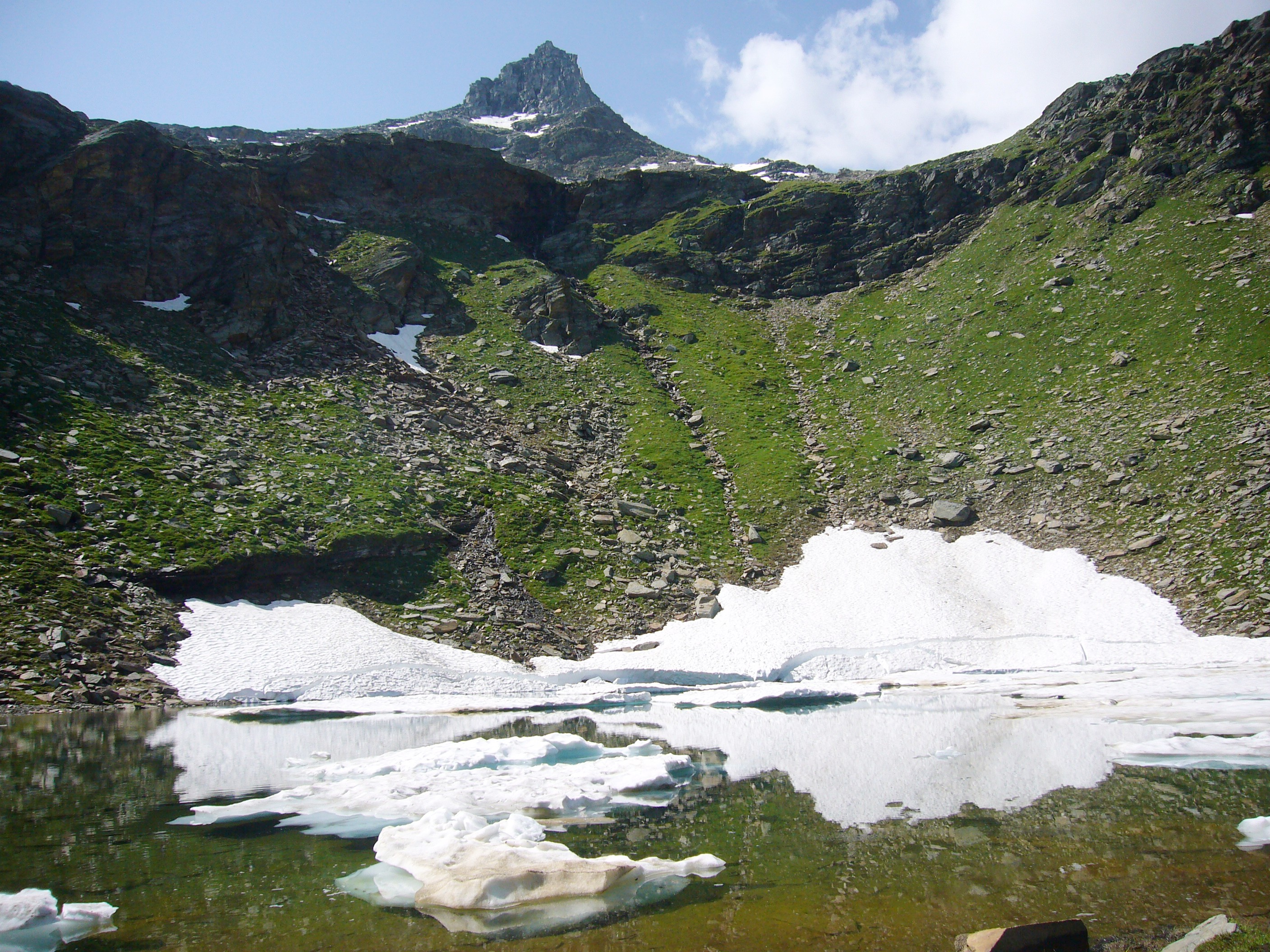 Ampervreilsee lies near Vals GR at 2377 meters abbove sea level. It is pictured here in July, still with snow about and in it. Direction of view is south, the peak above is Guraletschhorn (2908m), which shares its name with another lake to its west.